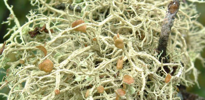 Evernia mesomorpha